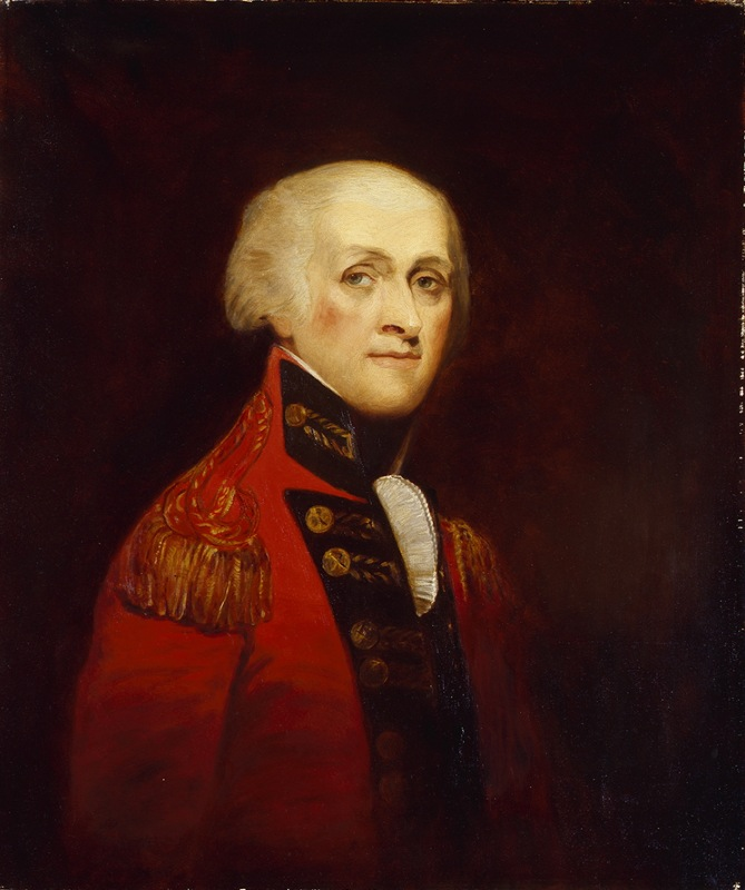 Frederick Haldimand, governor of British North America